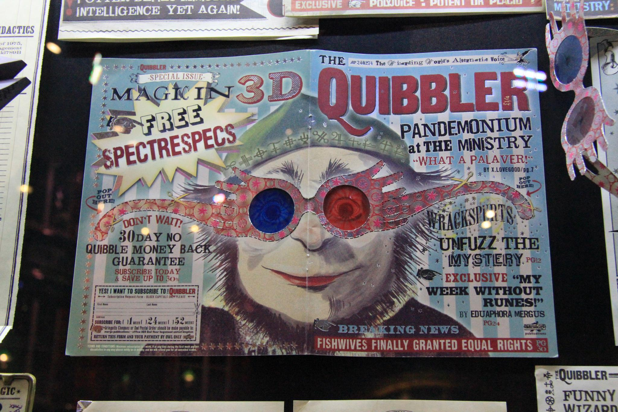 Warner Bros. Studio Tour London: The Making of Harry Potter.